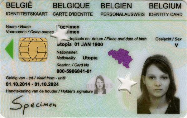 National identity card of Belgium (dutch)